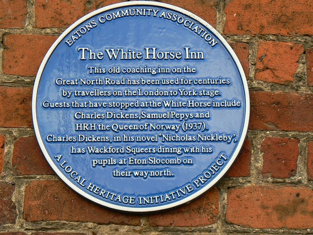 Blue Plaque, The White Horse Inn, Eaton Socon. The White Horse Inn. This old coaching inn on the Great North Road has been used for centuries by travellers on the London to York stage. Guests that have stopped at the White Horse include Charles Dickens, Samuel Pepys and HRH the Queen of Norway (1937). Charles Dickens, in his novel Nicholas Nickleby, has Wackford Squeers dining with his pupils at Eton Slocomb on their way north. Eatons Community Association. See 1366084 and 1366090